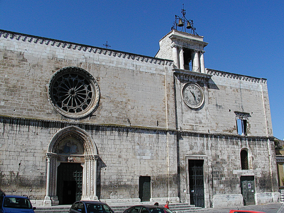 Sulmona, facade of S. Maria della Tomba Church.